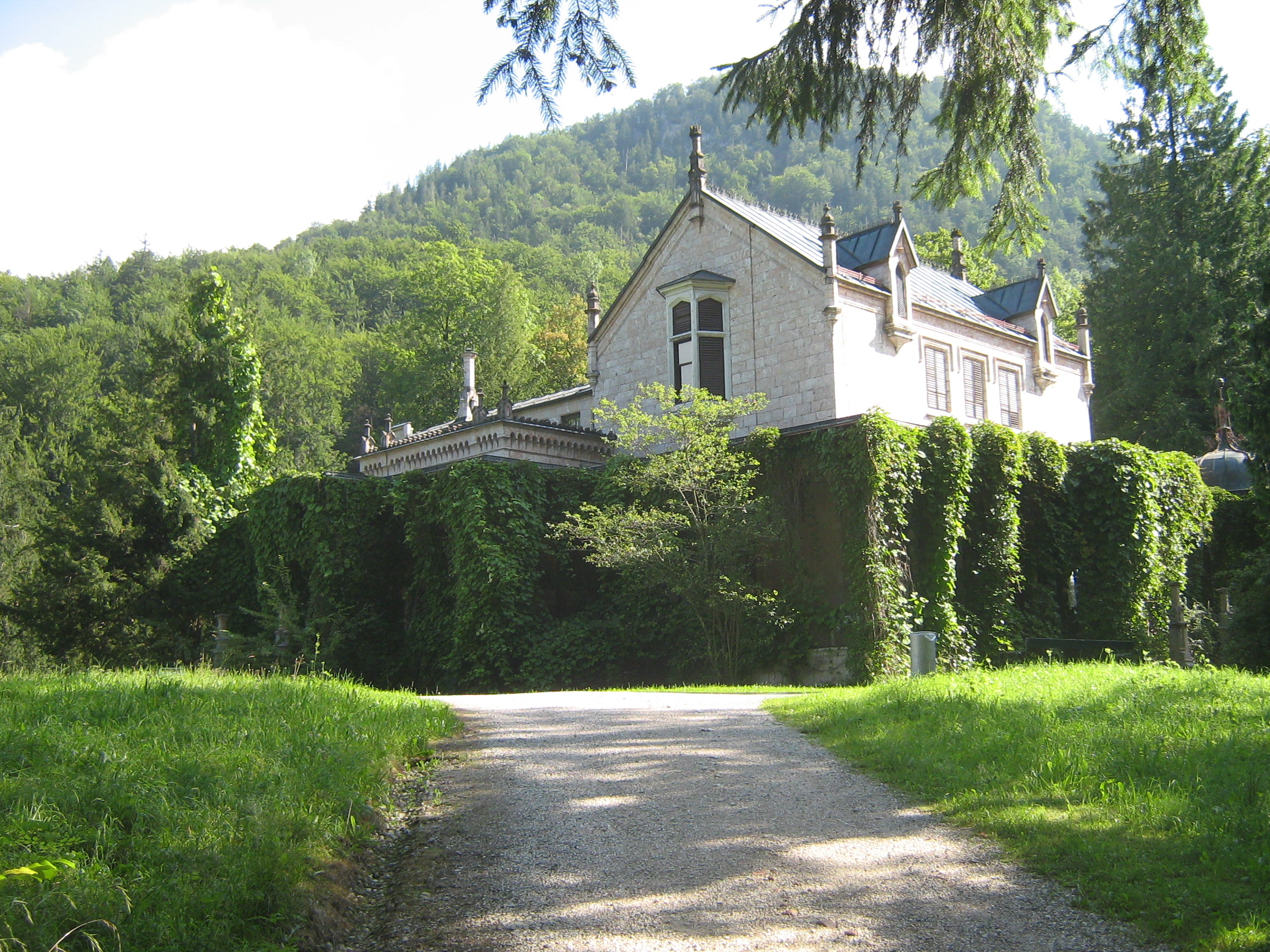 Austria, Bad Ischl, Kaiservilla